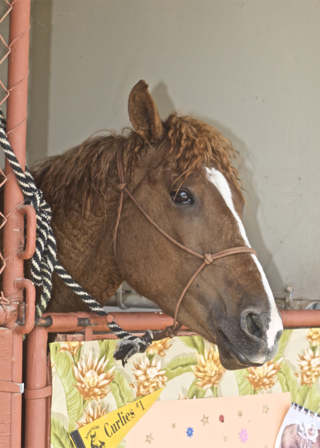 bashkir curly